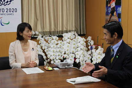 Masahiro Imamura, Minister for Reconstruction, talked with Tamayo Ōtsuka, Minister in charge of the Tokyo Olympic and Paralympic Games, at the Central Government Building No.8 in Chiyoda Ward, Tōkyō Metropolis on August 31, 2016.